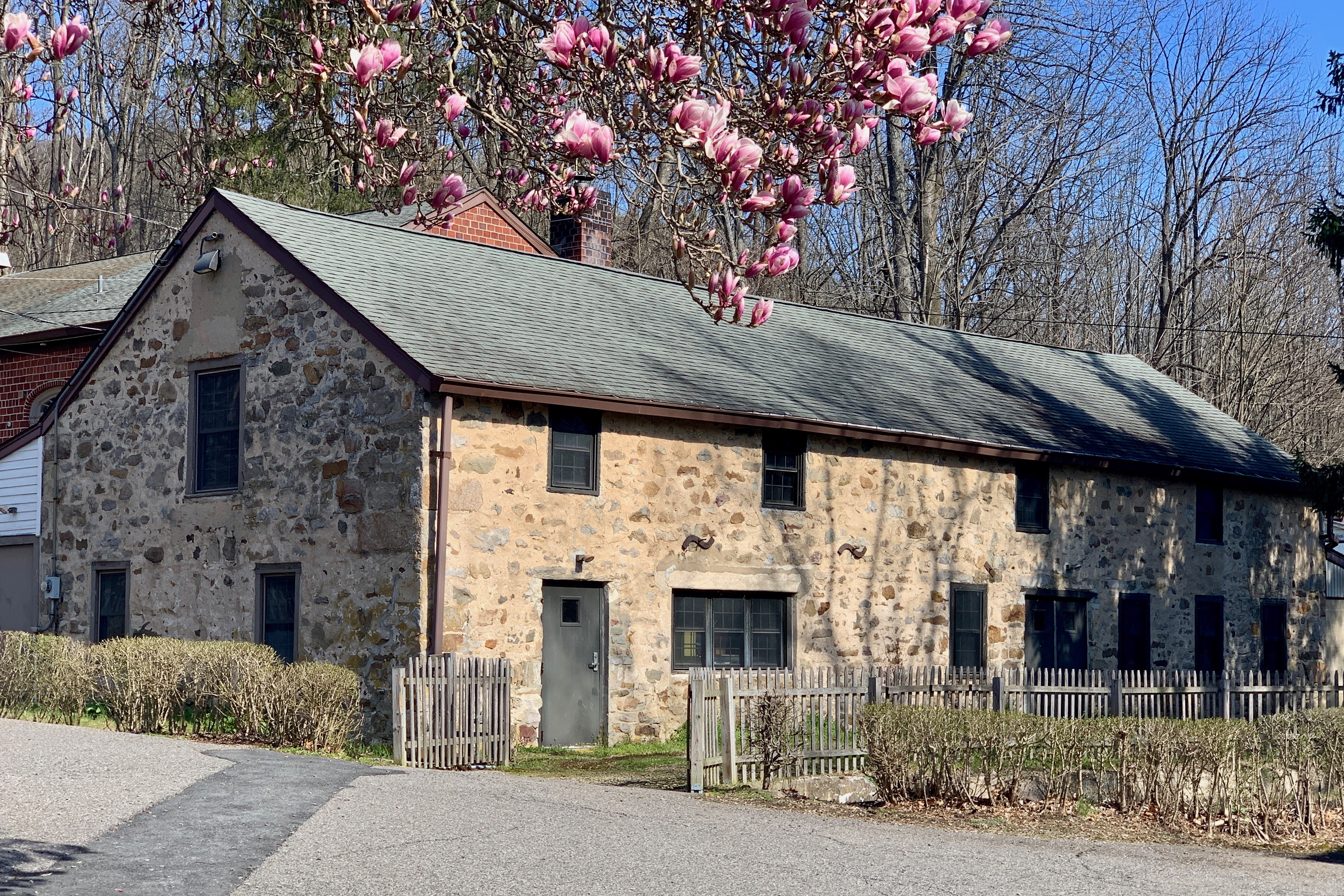 Ruble stone foundry in Bowerstown, New Jersey. Contributing property #11 in the Bowerstown Historic District. Built circa 1829 date QS:P,+1829-00-00T00:00:00Z/9,P1480,Q5727902. Purchased by Michael Bowers in 1843.